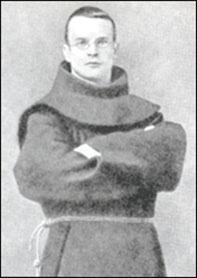 Joseph McCabe as Father Antony, OSF, in 1895.